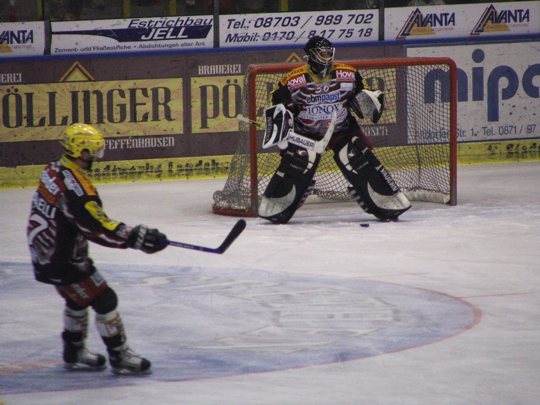 Stefan Horneber, ice hockey goaltender of the Landshut Cannibals, also T.J.Guidarelli on the pic